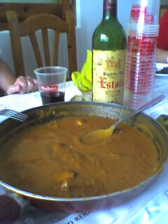 Plato tradicional manchego: gachas de almorta Manchego dish made with Lathyrus sativus flour